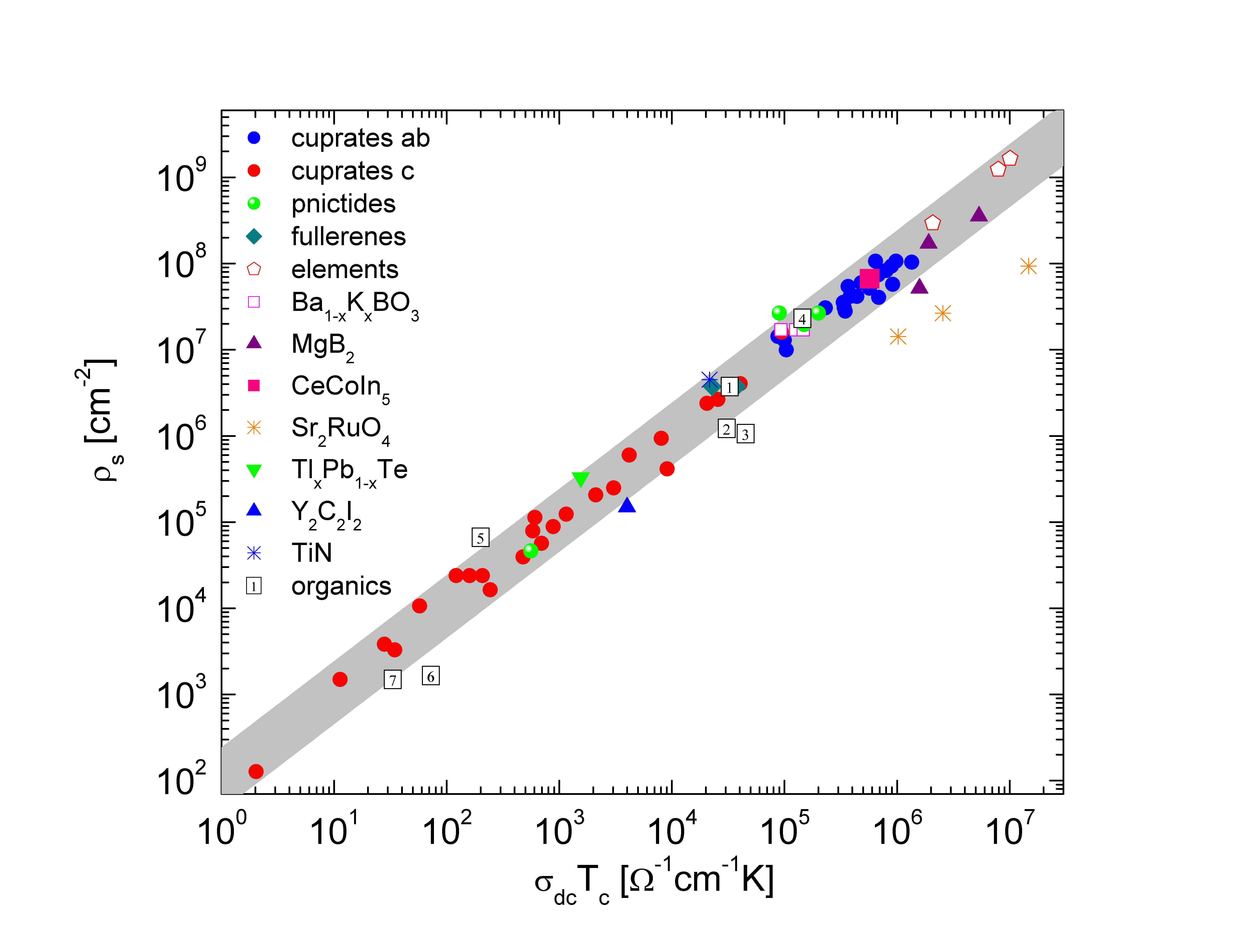 A log-log plot of the superfluid density versus the product of the dc conductivity and the critical temperature for a variety of cuprate and other exotic superconductors.